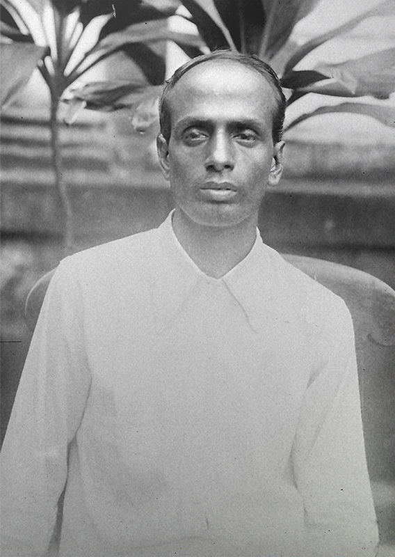 The only portrait of Master da Surya Sen